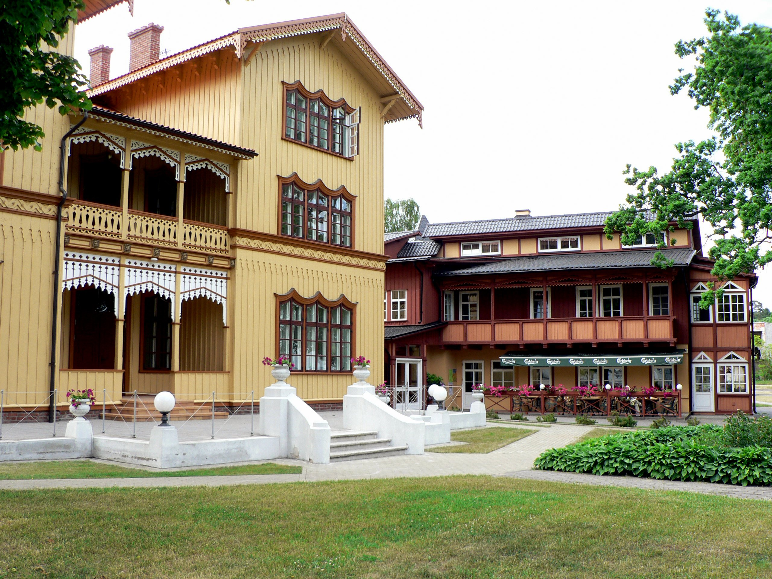 Resort houses in Juodkrantė , Lithuania.